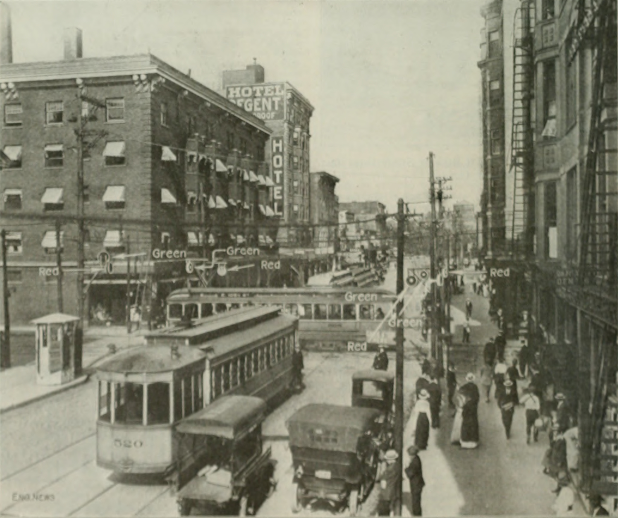 Looking east on Euclid Avenue at East 105th Street in Cleveland, showing the installation of an early electric traffic signal